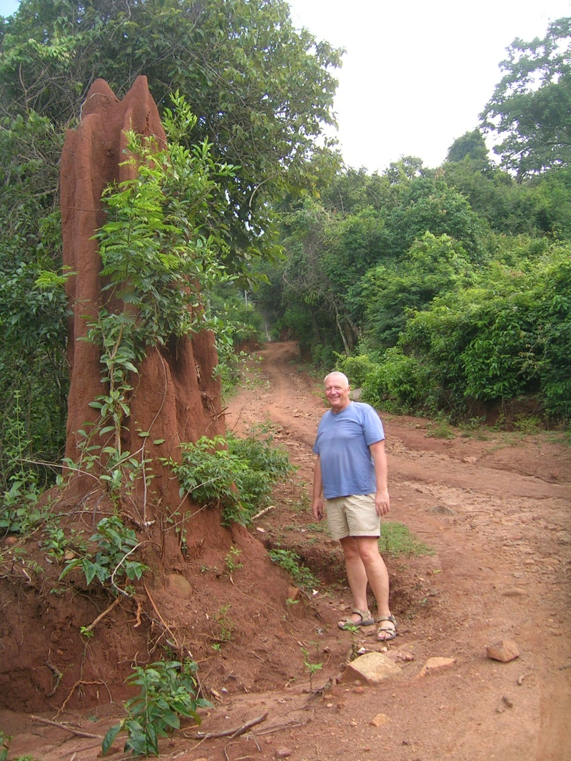 Termite hill in the Javadi Hills near Melpatti, Tamil Nadu